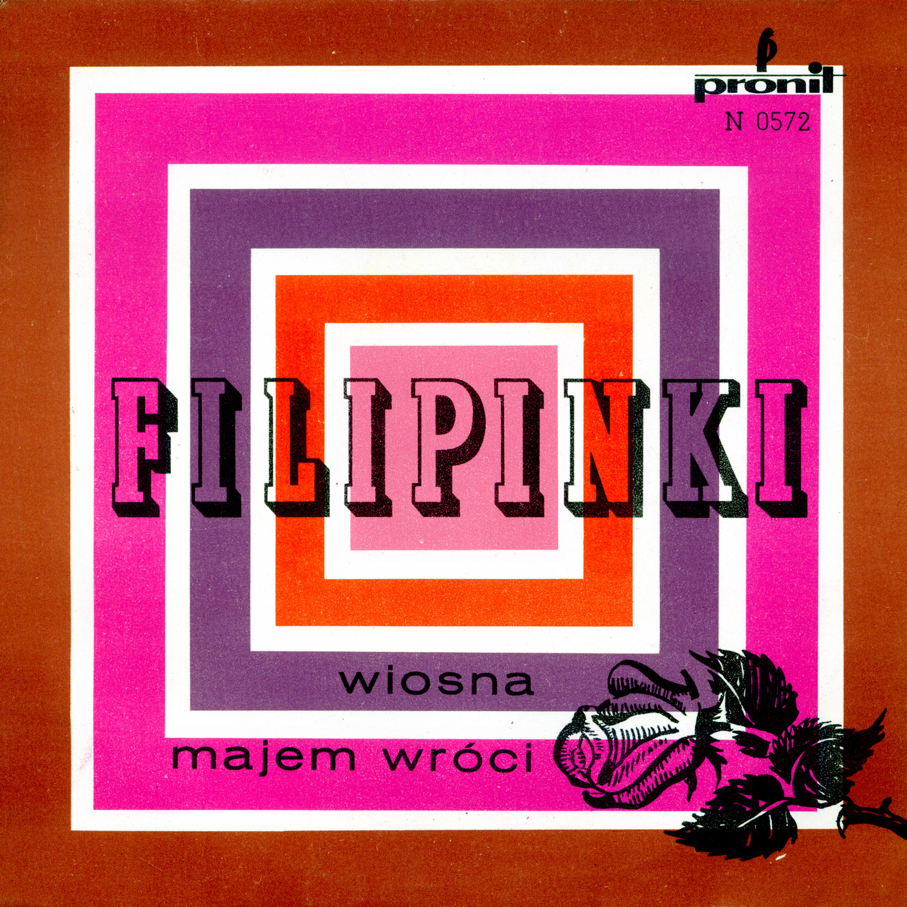 Filipinki, N0572, 1969